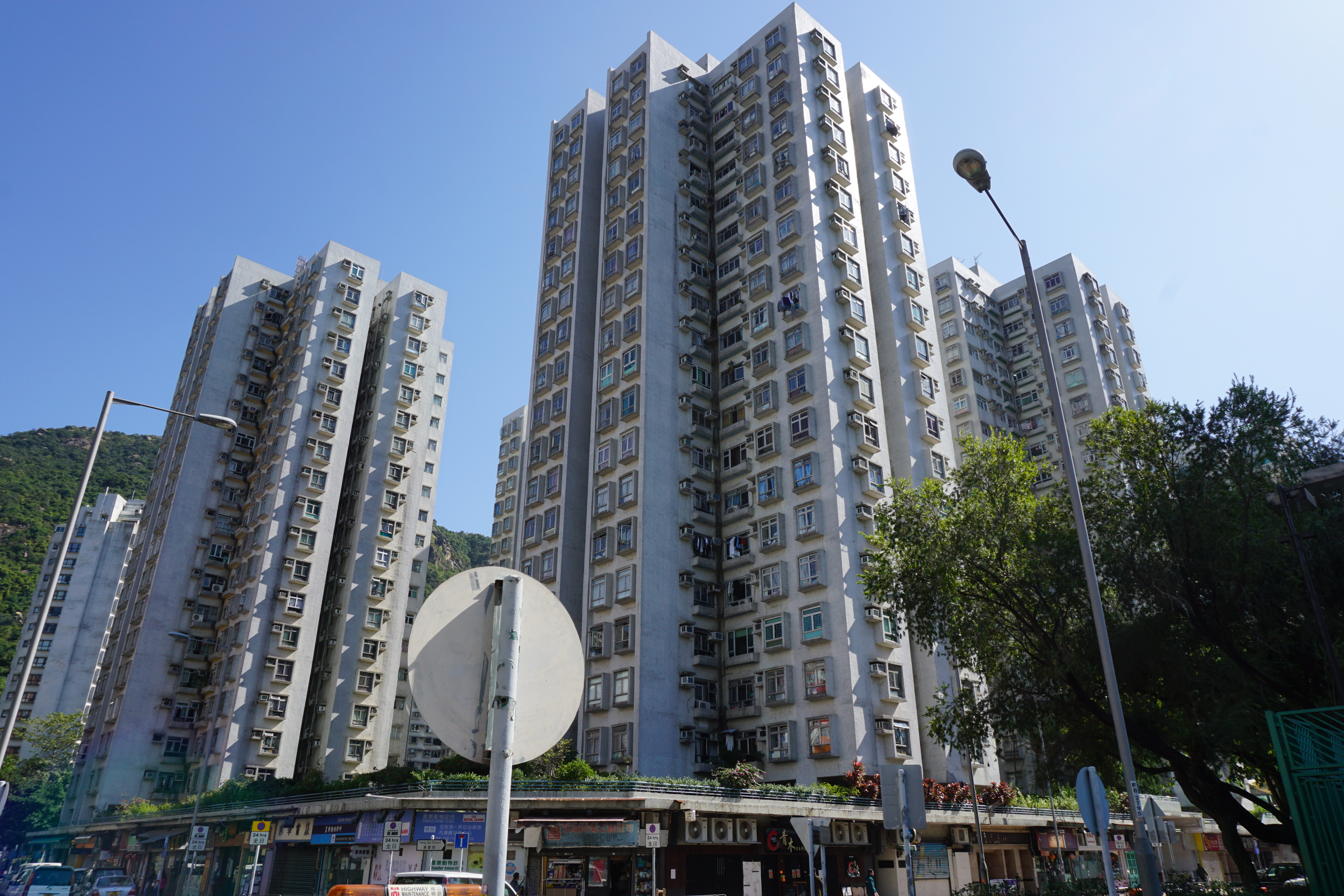 Rainbow Garden in Tuen Mun, Hong Kong.